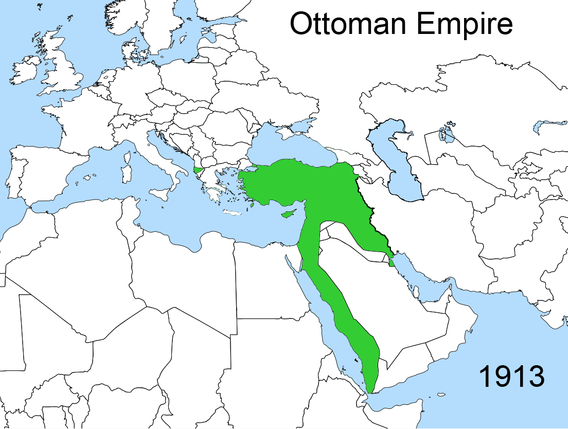 Territorial changes of the Ottoman Empire